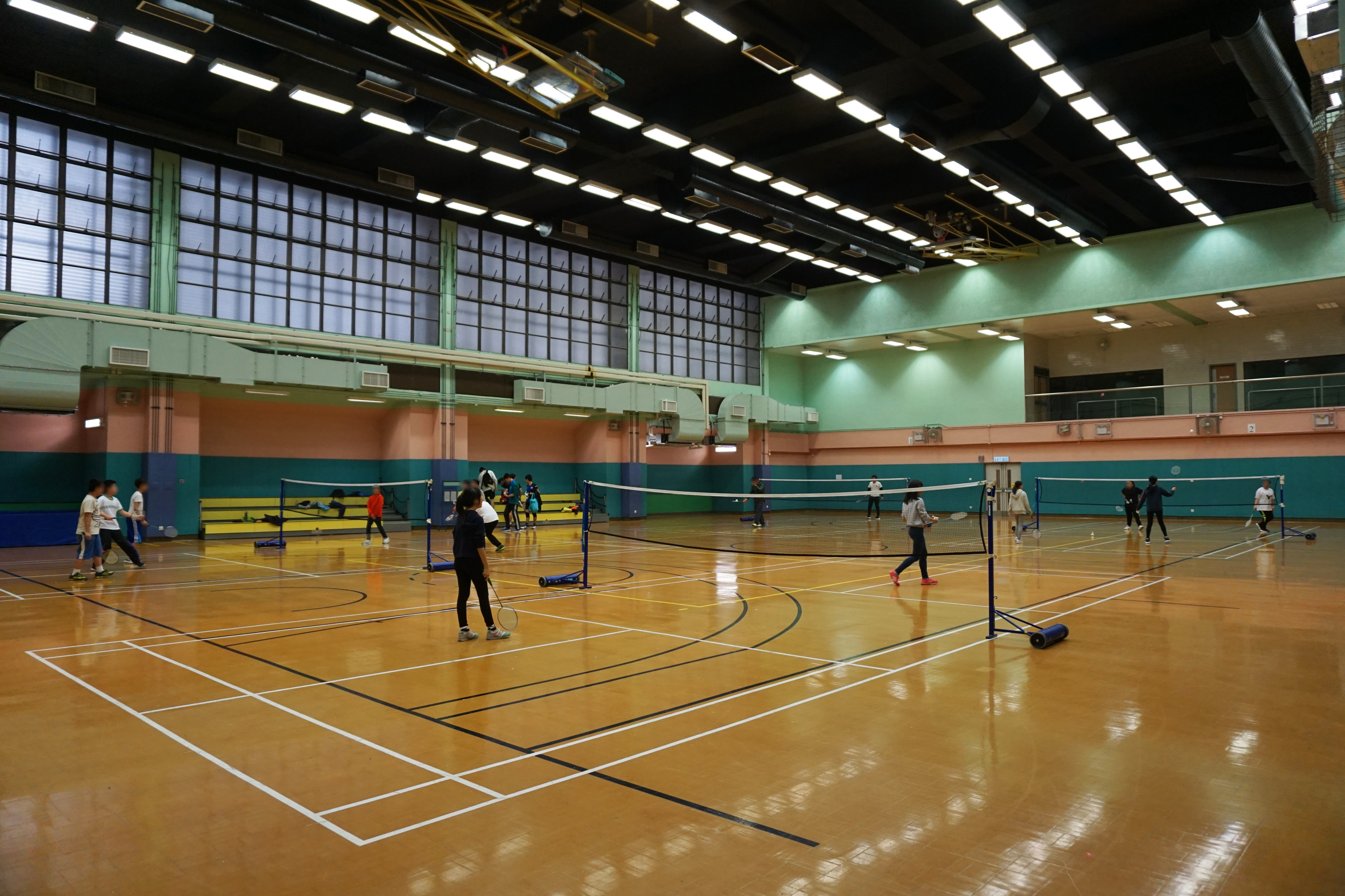 Cheung Fat Sports Centre in Tsing Yi, Hong Kong.